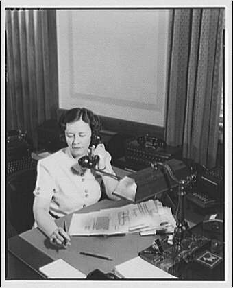 "Miss Helen Gandy, secretary to J. Edgar Hoover. Miss Gandy on phone at desk I."